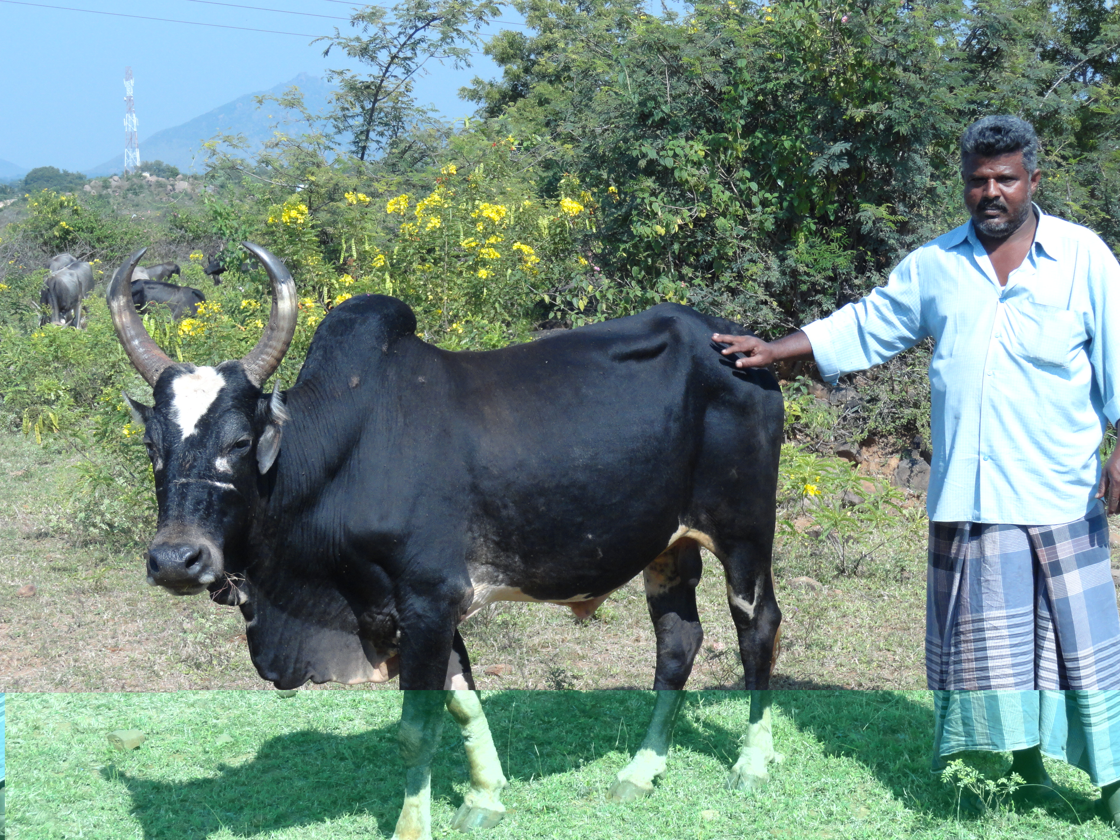 A bull of kidaiyan breed of cattle.